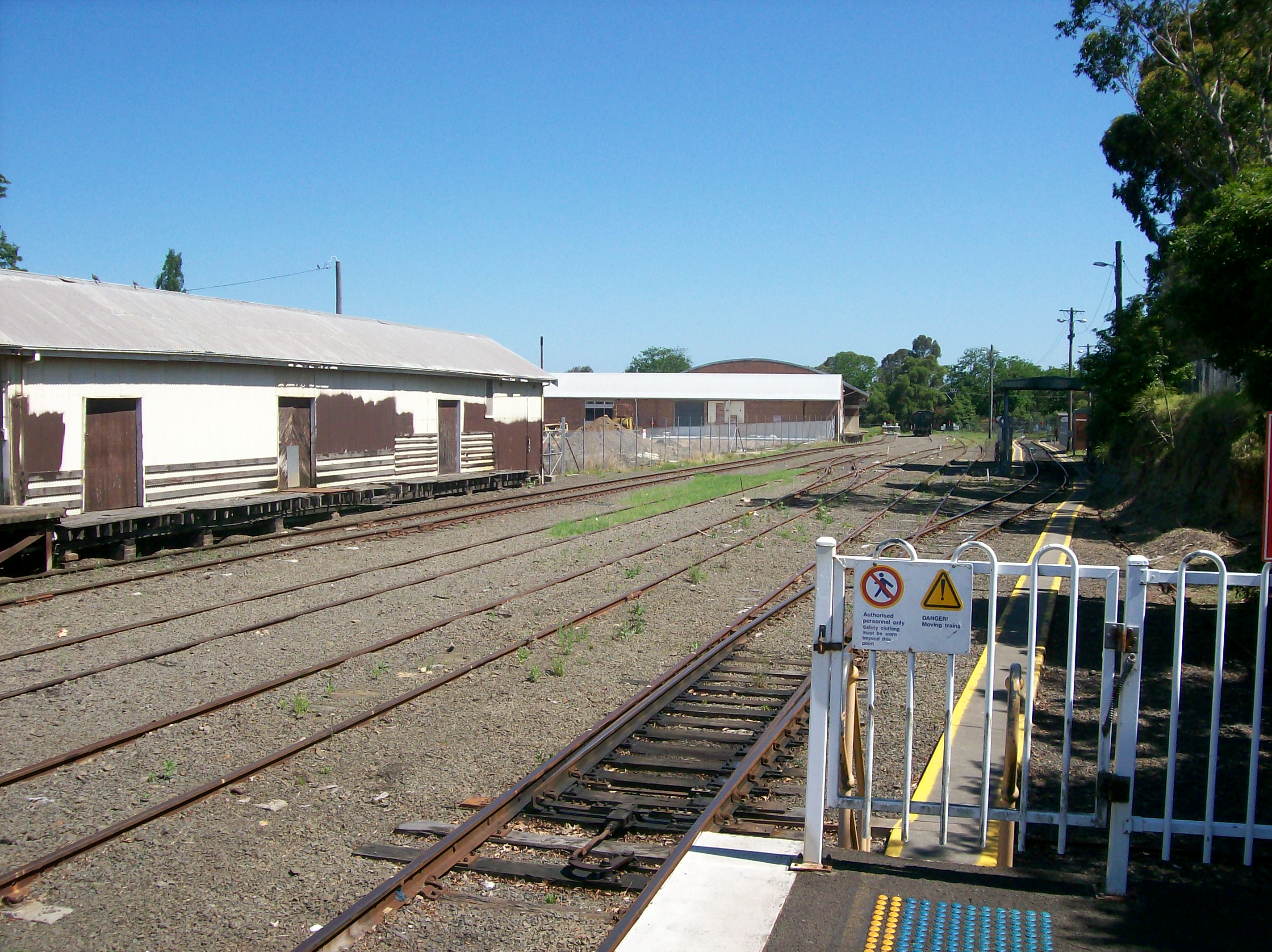 Bomaderry railway station end of the line